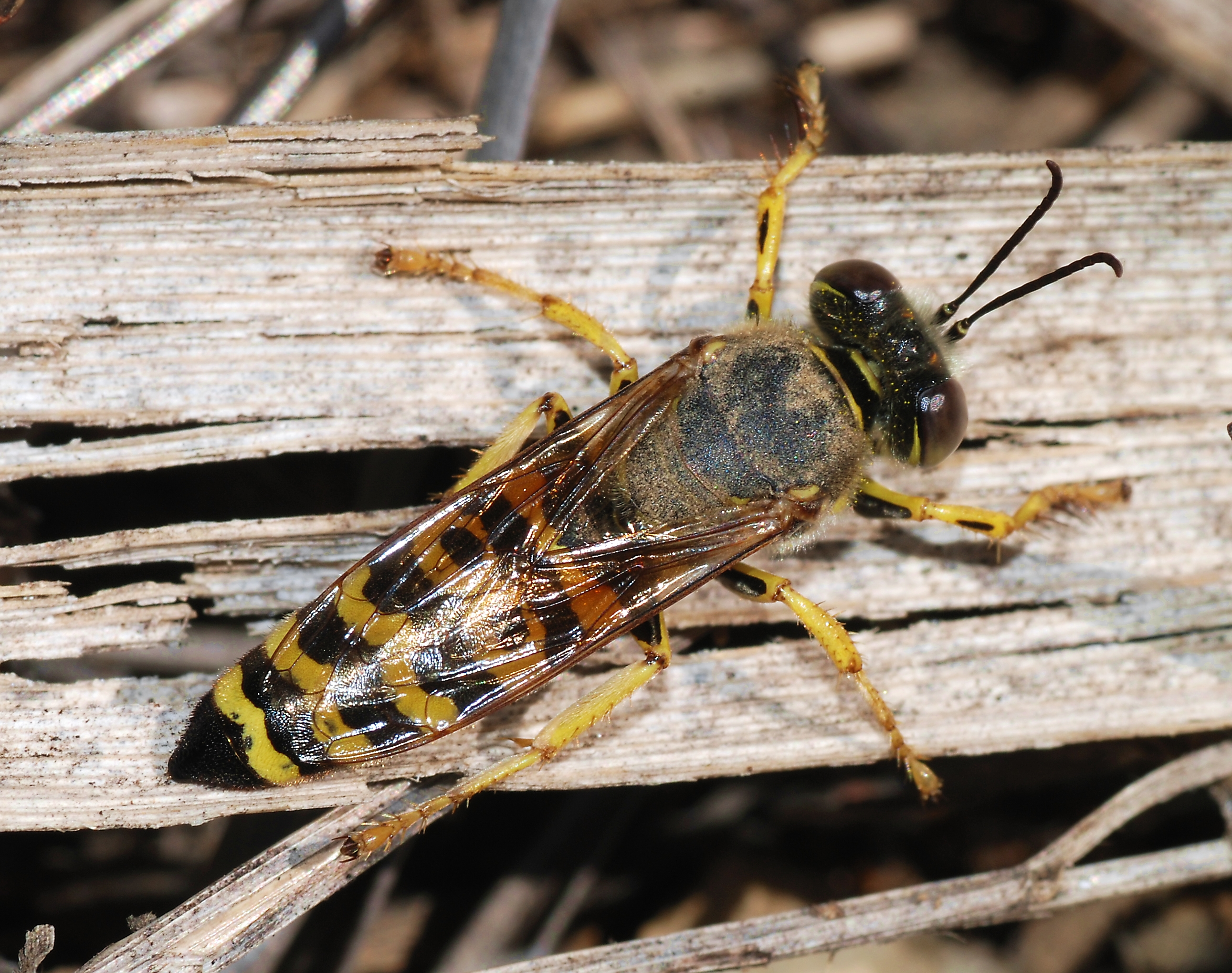 A digger wasp.